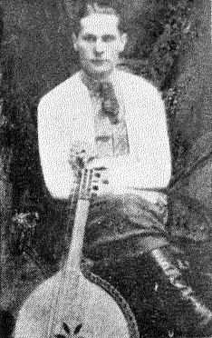 Bandurist M. Teliha from a larger photo dated 1924